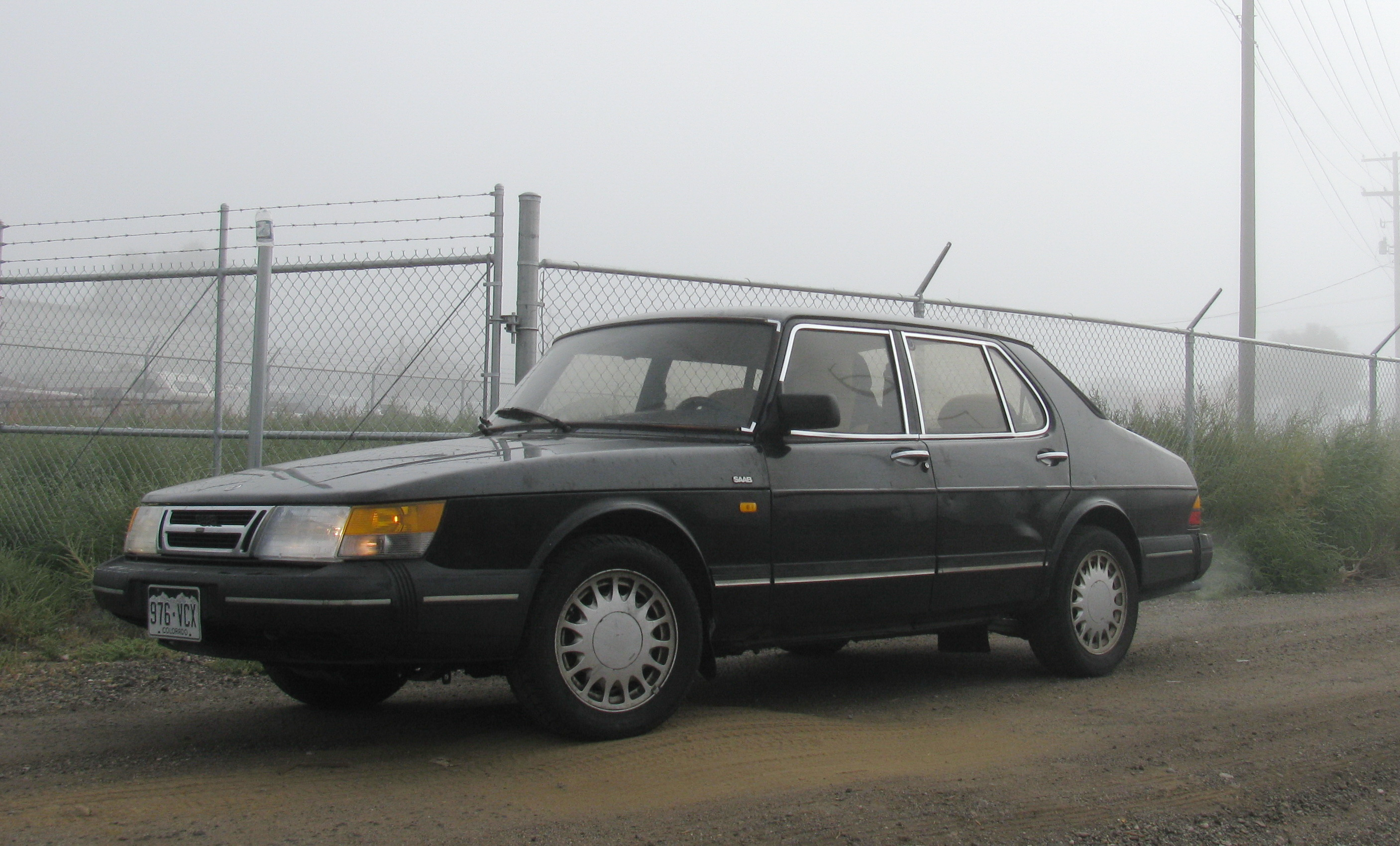 Non turbo, 16V 2.0L engine; pictured in Longmont CO 2010